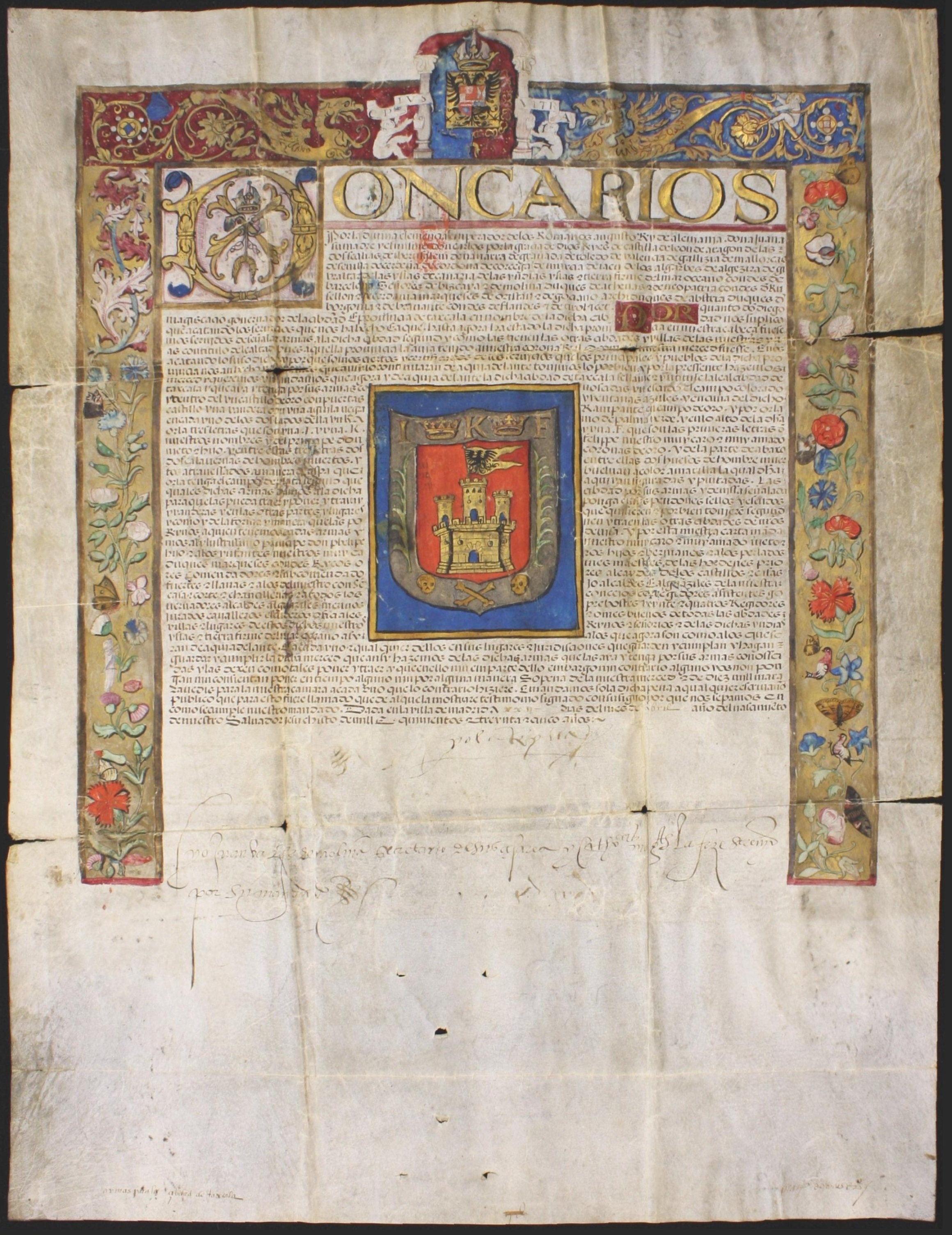 This royal writ or decree, by order of the Emperor Charles V, confers upon the city of Tlaxcala, Mexico, a coat of arms and the title of "Loyal City," in recognition of the services "which the noblemen and towns of the said province have accomplished for us." It was the first of only three such titles given by the emperor to cities in New Spain. This direct recognition by the emperor of the indigenous noblemen of Tlaxcala went on to determine the course of Tlaxcalan history, as the indigenous province always defended this privilege against those who wanted to reduce her rights. The decree was signed in Madrid on April 22, 1535. The Center for the Study of the History of Mexico rescued the document in 1974. Charles V, Holy Roman Emperor, 1500-1558; Devices (Heraldry); Indians of Mexico; Indigenous peoples; Royal decrees; Tlaxcalan Indians